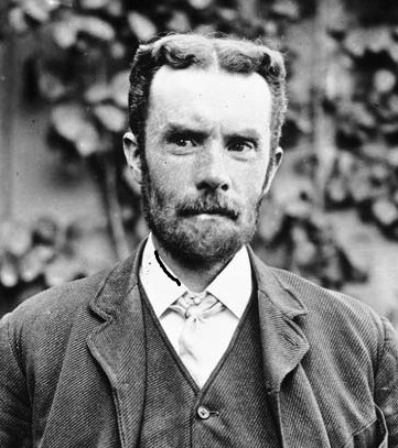 Oliver Heaviside head and shoulders